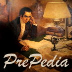 PrePedia logo.